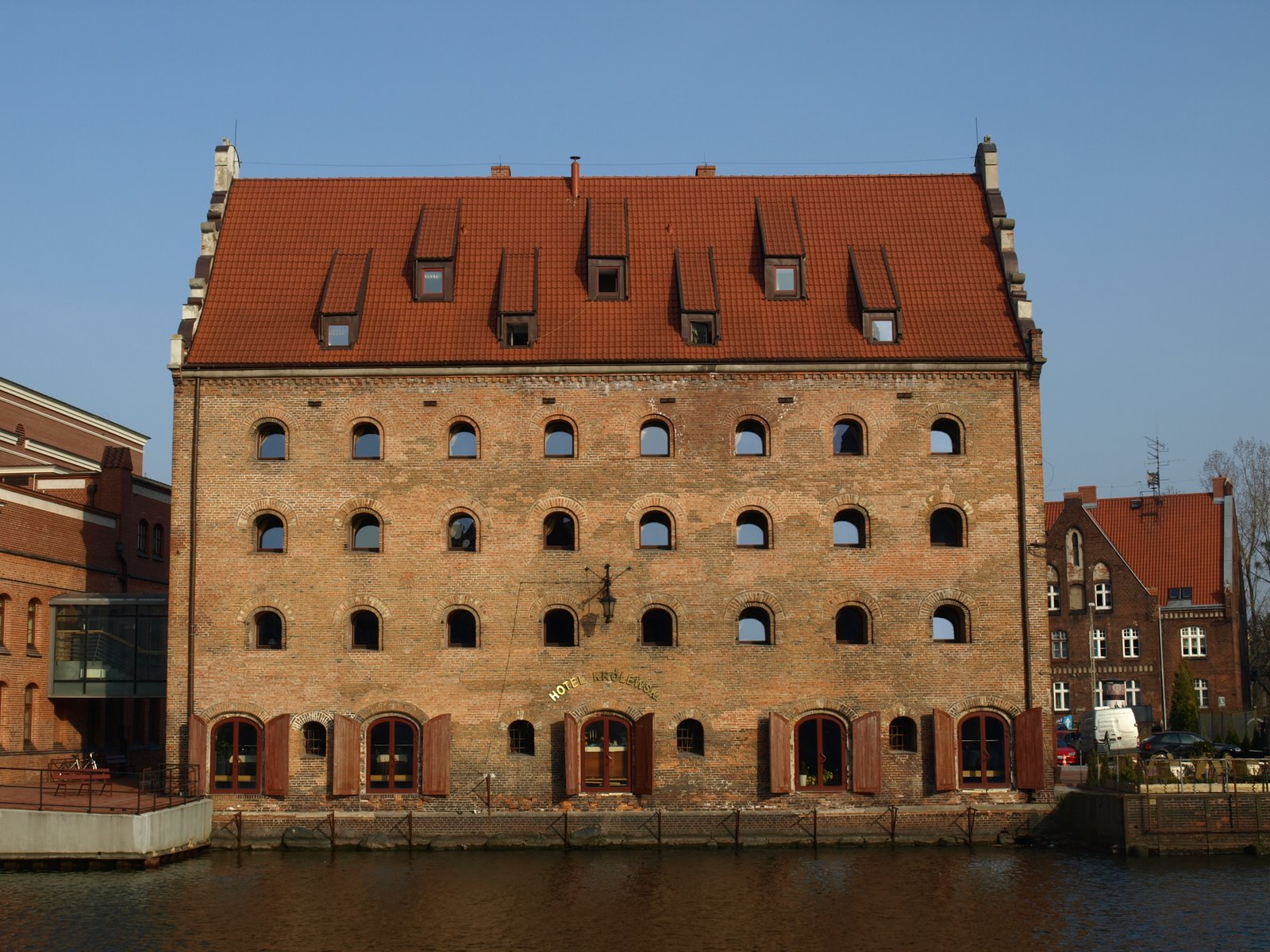 Photographs of the Ołowianka Island Complex: Polish Baltic Philharmonic, Central Maritime Musem and Hotel Królewski